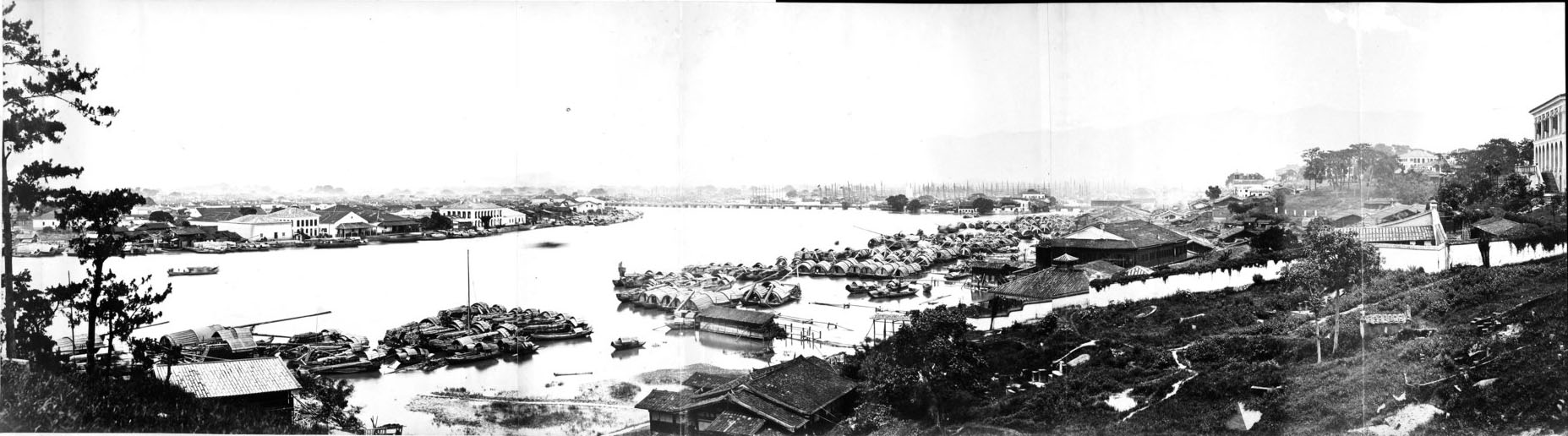 Panoramic view of River Min in Fuzhou, ca. 1870